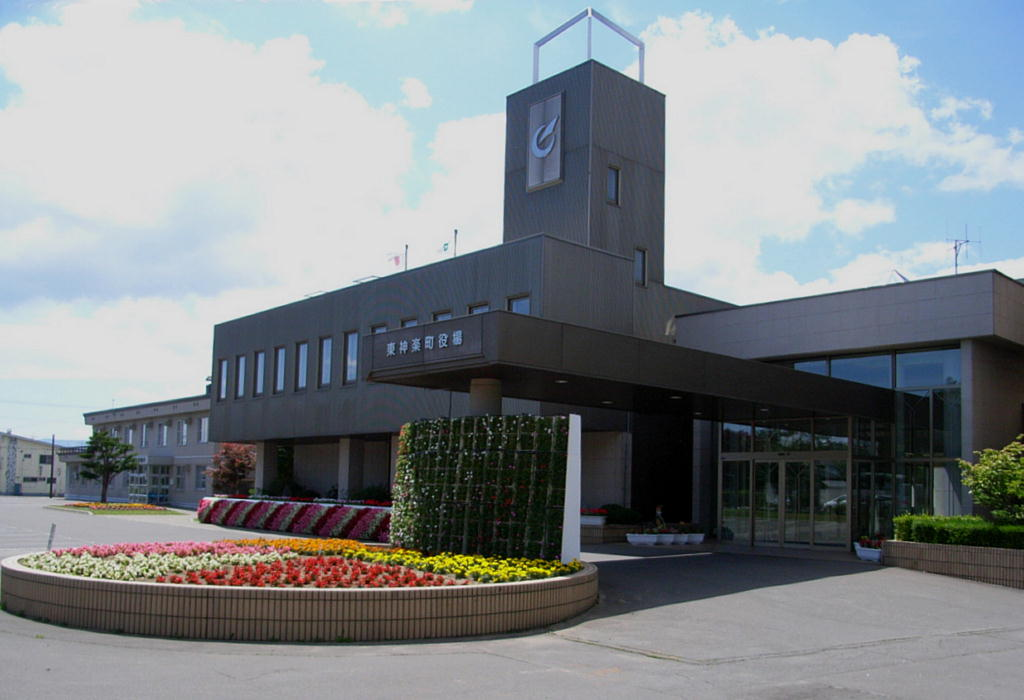 Higashikagura Town Hall in Kamikawa Subprefecture, Hokkaido, Japan